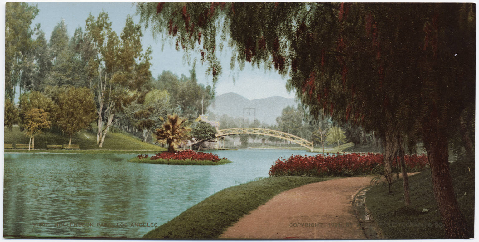 Hollenbeck Park. A photochrome postcard published by the Detroit Photographic Company.